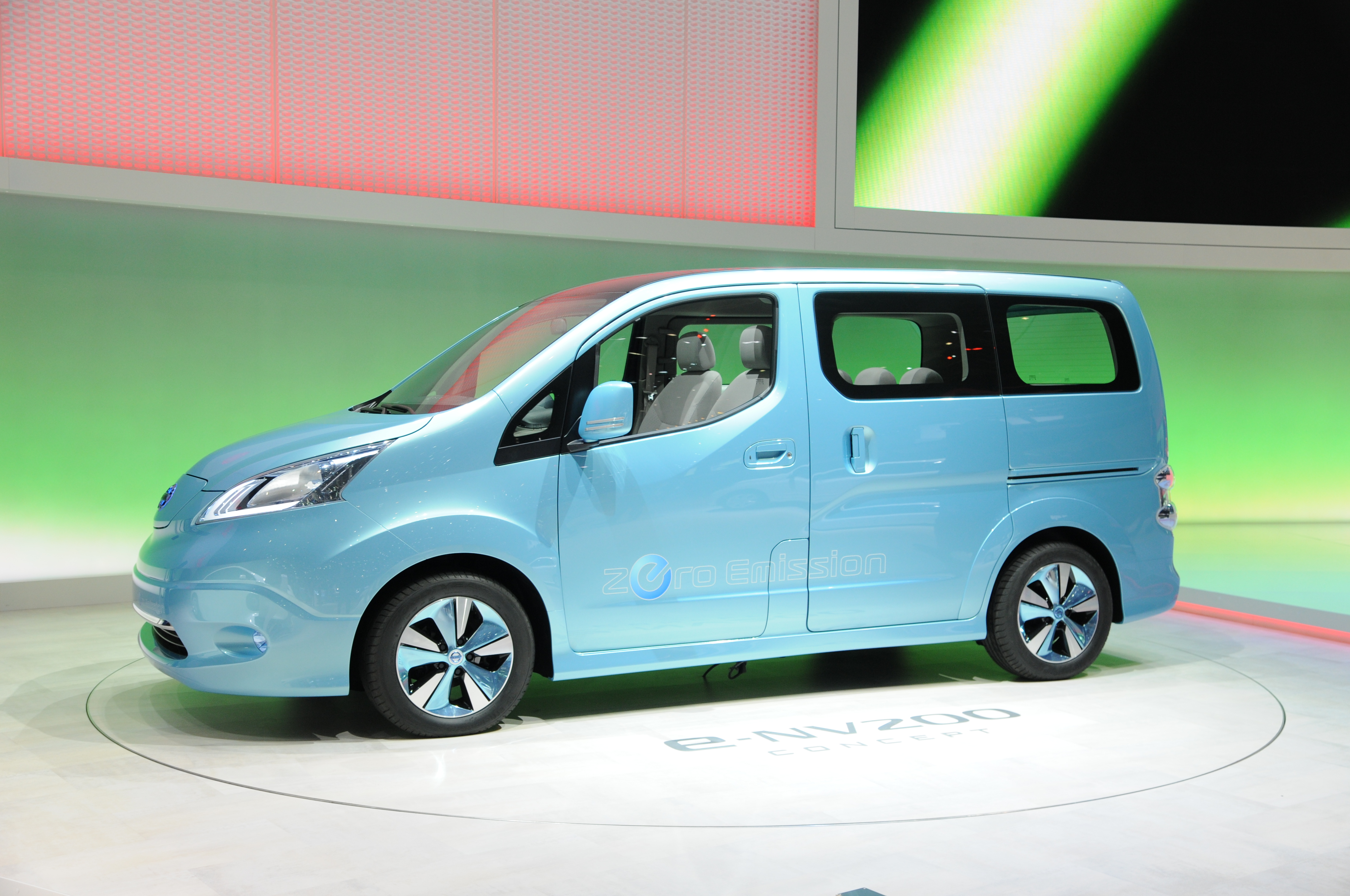 Nissan e-NV 200 Concept electric minivan at the Geneva Motor Show 2012 (photos taken on the second press day)